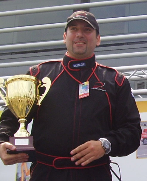 Italian rally driver Vincenzo Di Bella at the Trofeo Aria Nuova, Monza, Italy, May 30th, 2010.